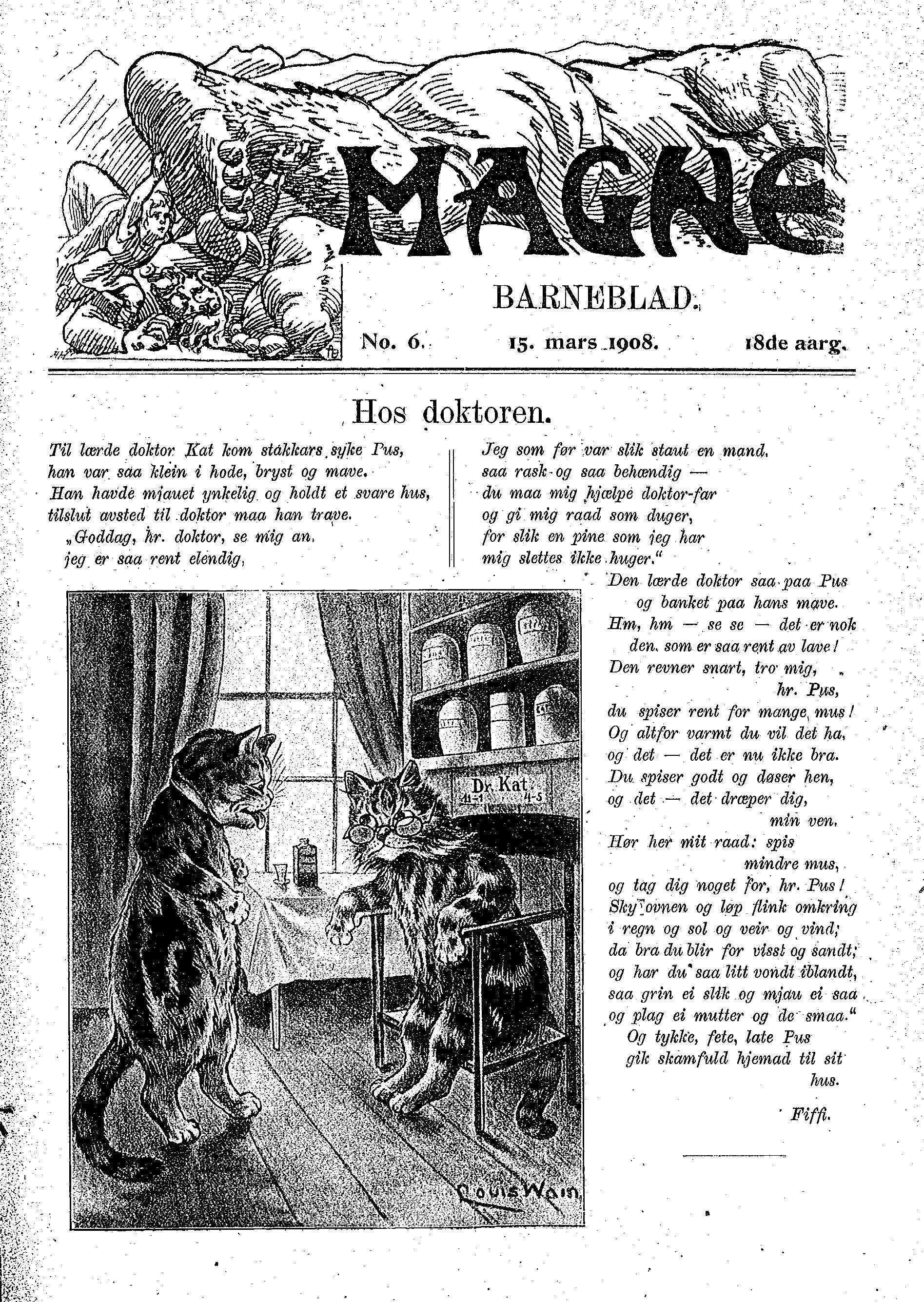 First page of the Norwegian children's magazine Magne, no.6 1908